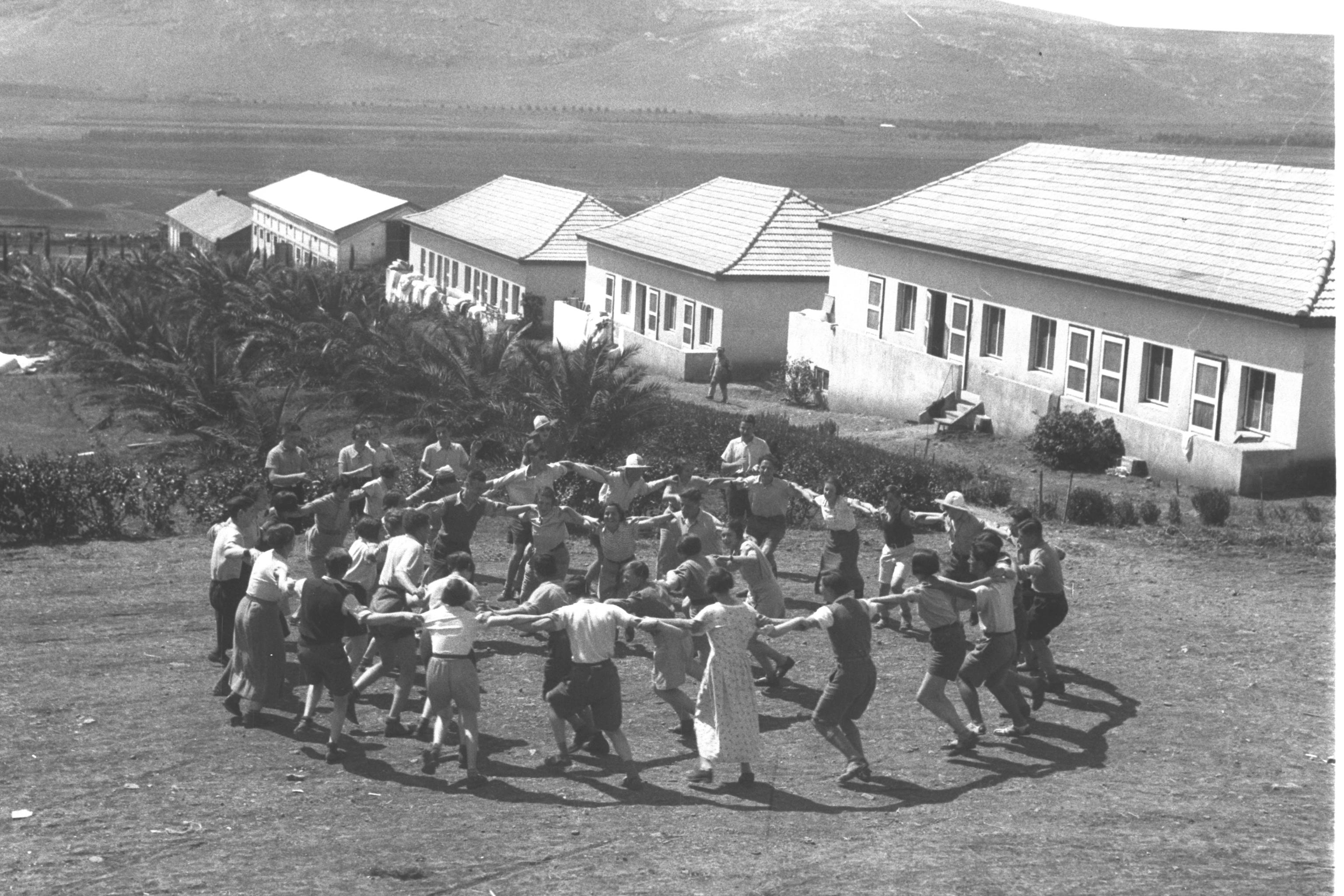 YOUTH ALIYA" MEMBERS FROM GERMANY DANCING THE "HORA" AT KIBBUTZ EIN HAROD. צעירים מ"עליית הנוער" בגרמניה, רוקדים הורה בקיבוץ עין חרוד.